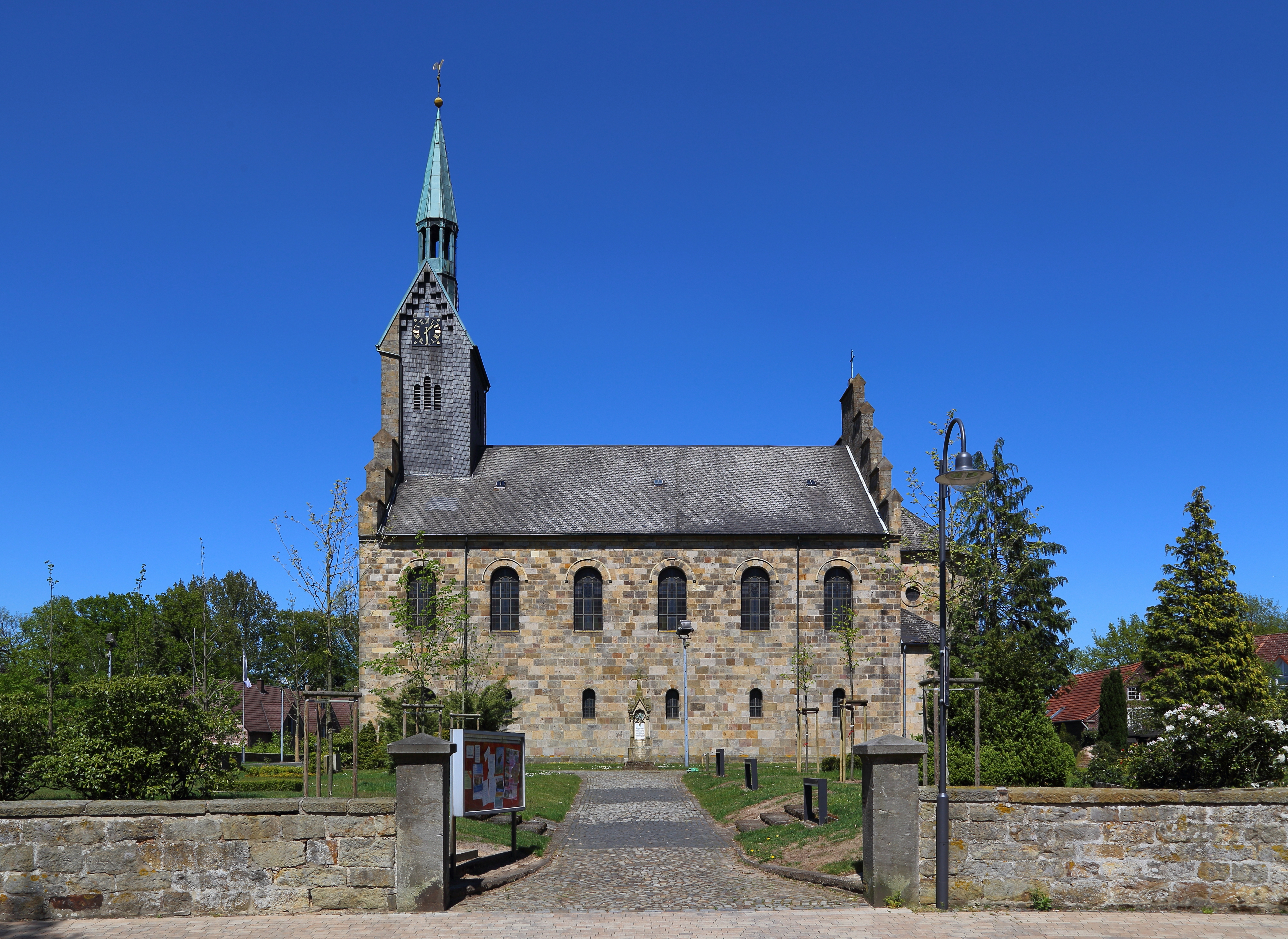 The Protestant Church (Evangelische Kirche) of Ladbergen, Kreis Steinfurt, North Rhine-Westphalia, Germany.